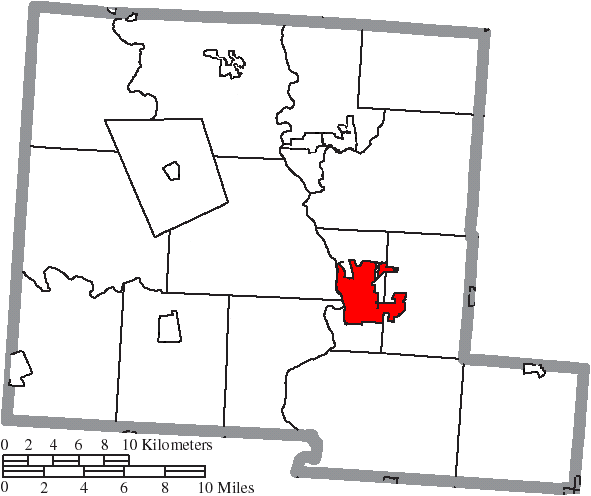 Map of the municipal and township boundaries of Pickaway County, Ohio, United States, as of the 2000 census, with the location of the city of Circleville highlighted. Township borders are shown only in unincorporated areas in order to differentiate incorporated and unincorporated areas more clearly.